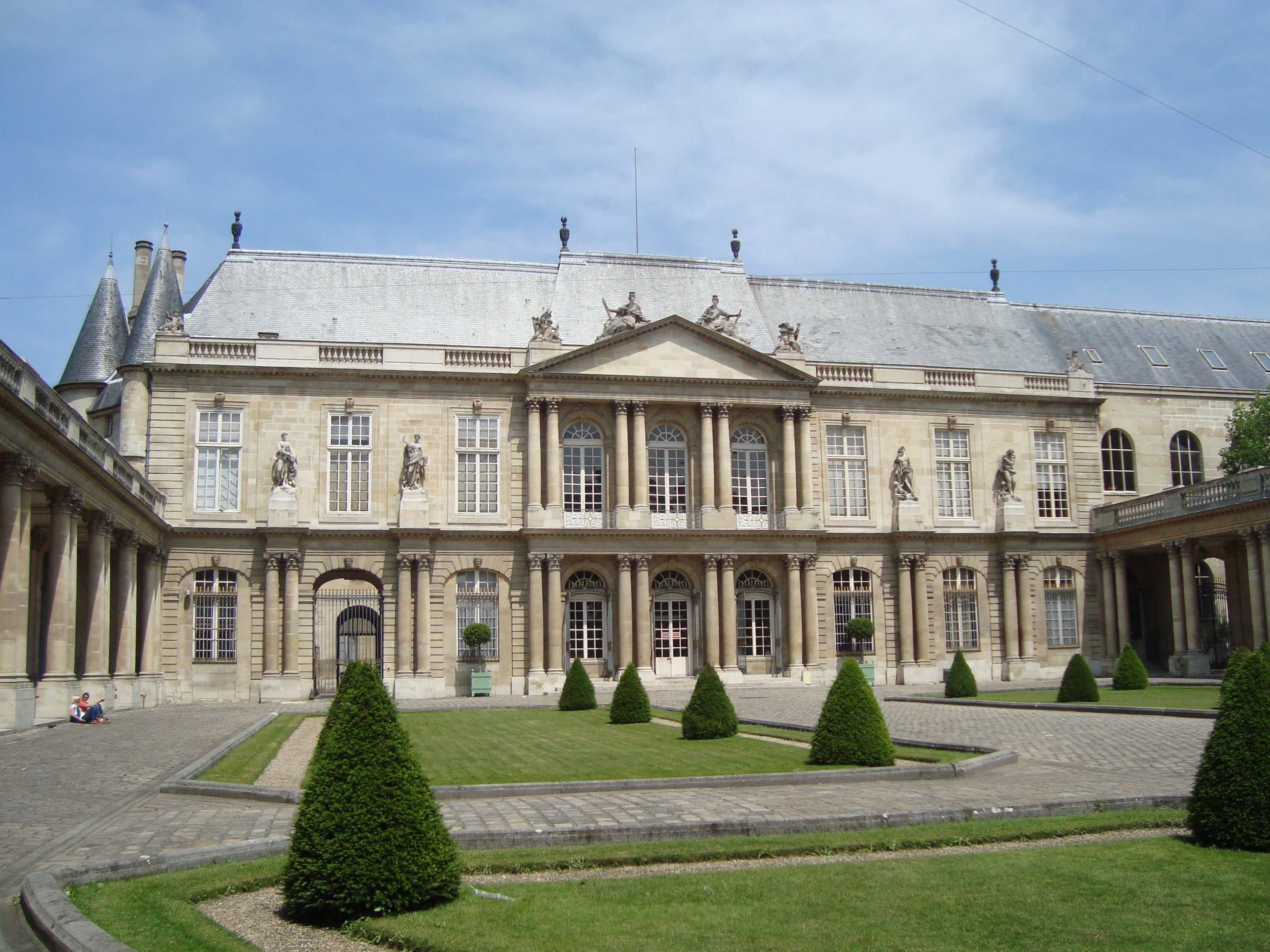 Facade of the Hôtel de Soubise in Paris